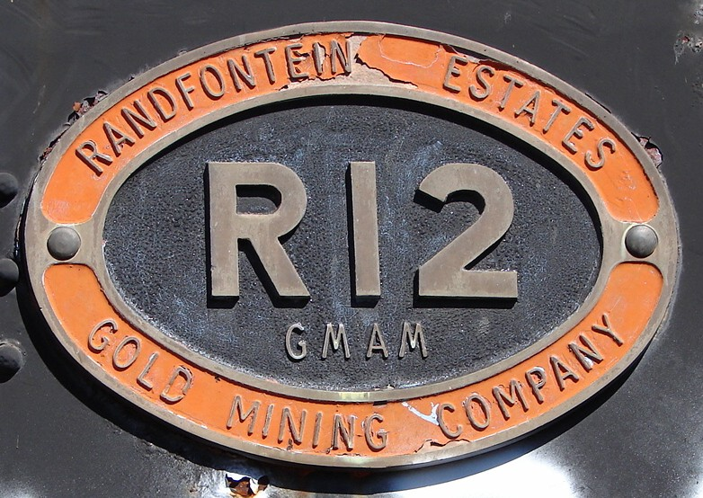 Ex SAR Class GMAM 4136 (4-8-2+2-8-4), number R12 in service of Randfontein Estates Gold Mining Company